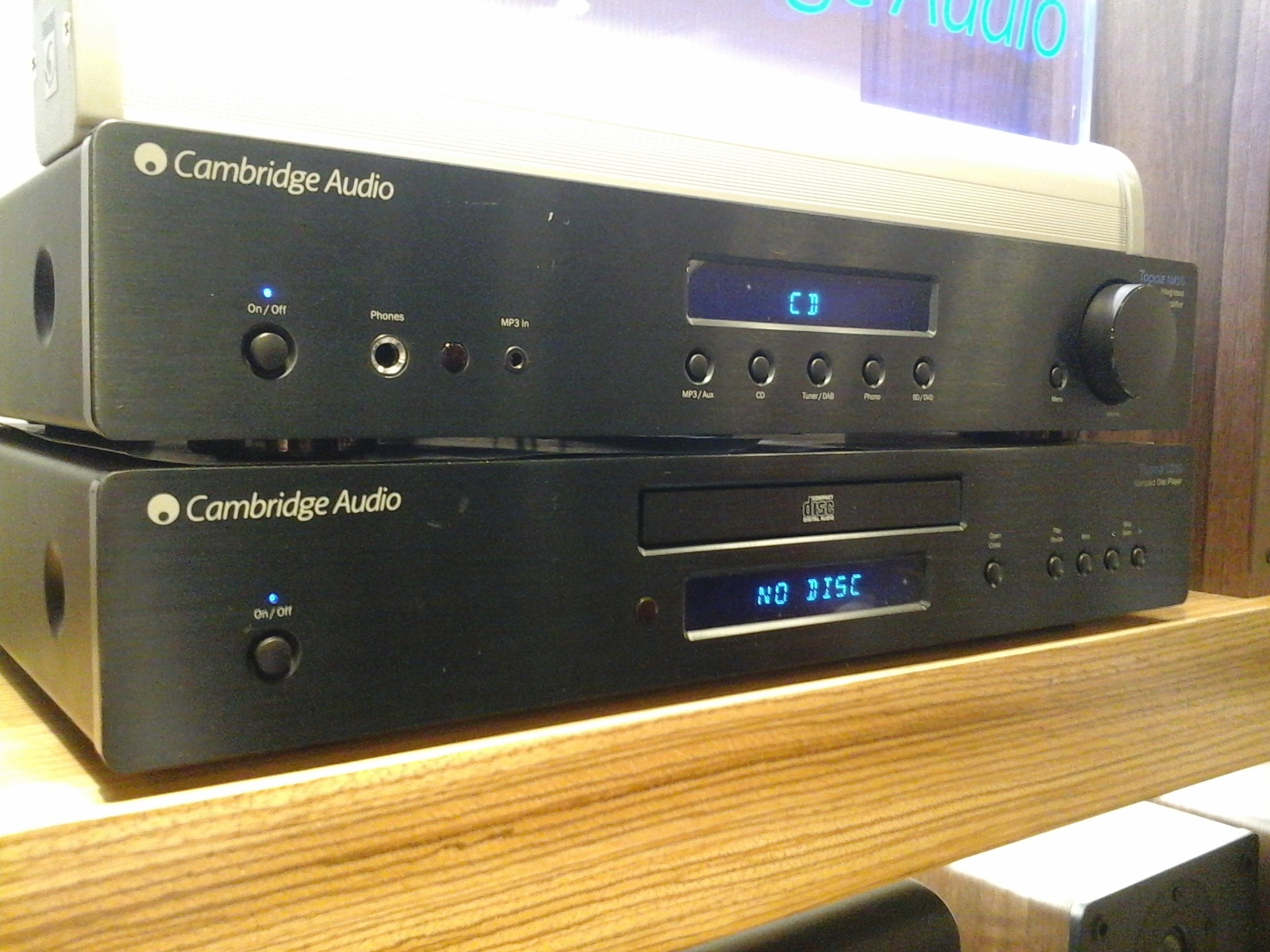 Cambridge Audio CD player and amplifier